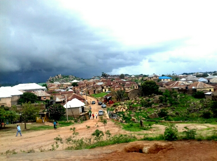 View of Tudun Wada wada Jos